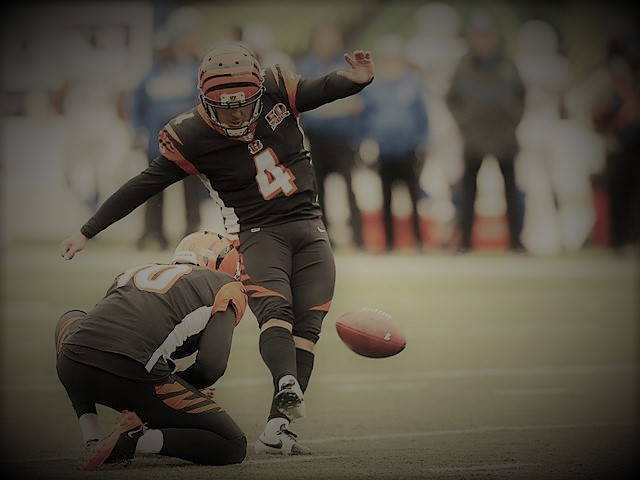 Randy Bullock kicking a field goal in an NFL regular season game.